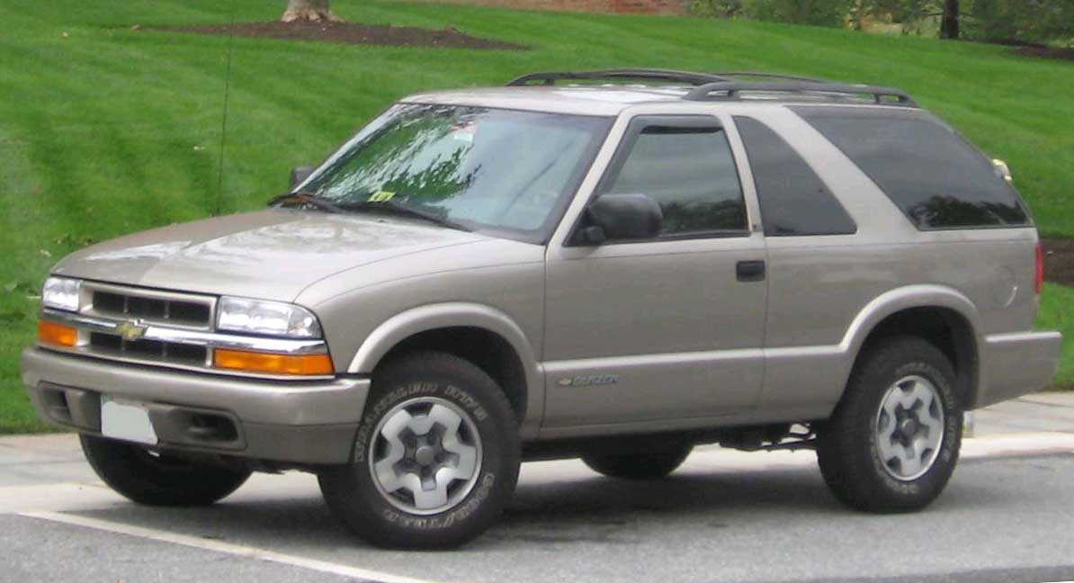 1998-2005 Chevrolet S-10 Blazer photographed in College Park, Maryland, USA.